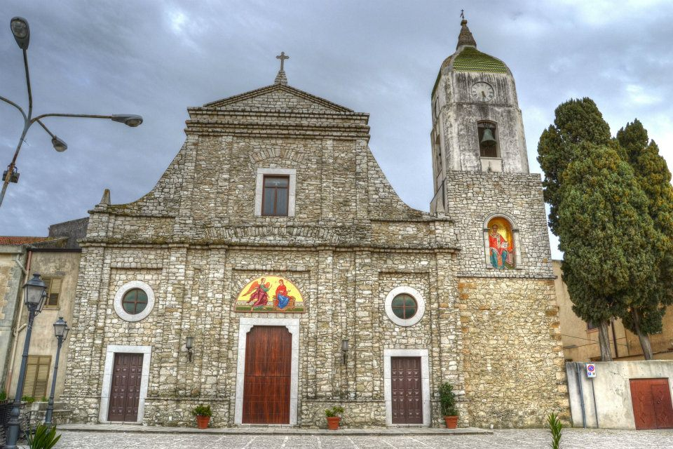 Mother Church of Contessa Entellina of greek orthodox rite.